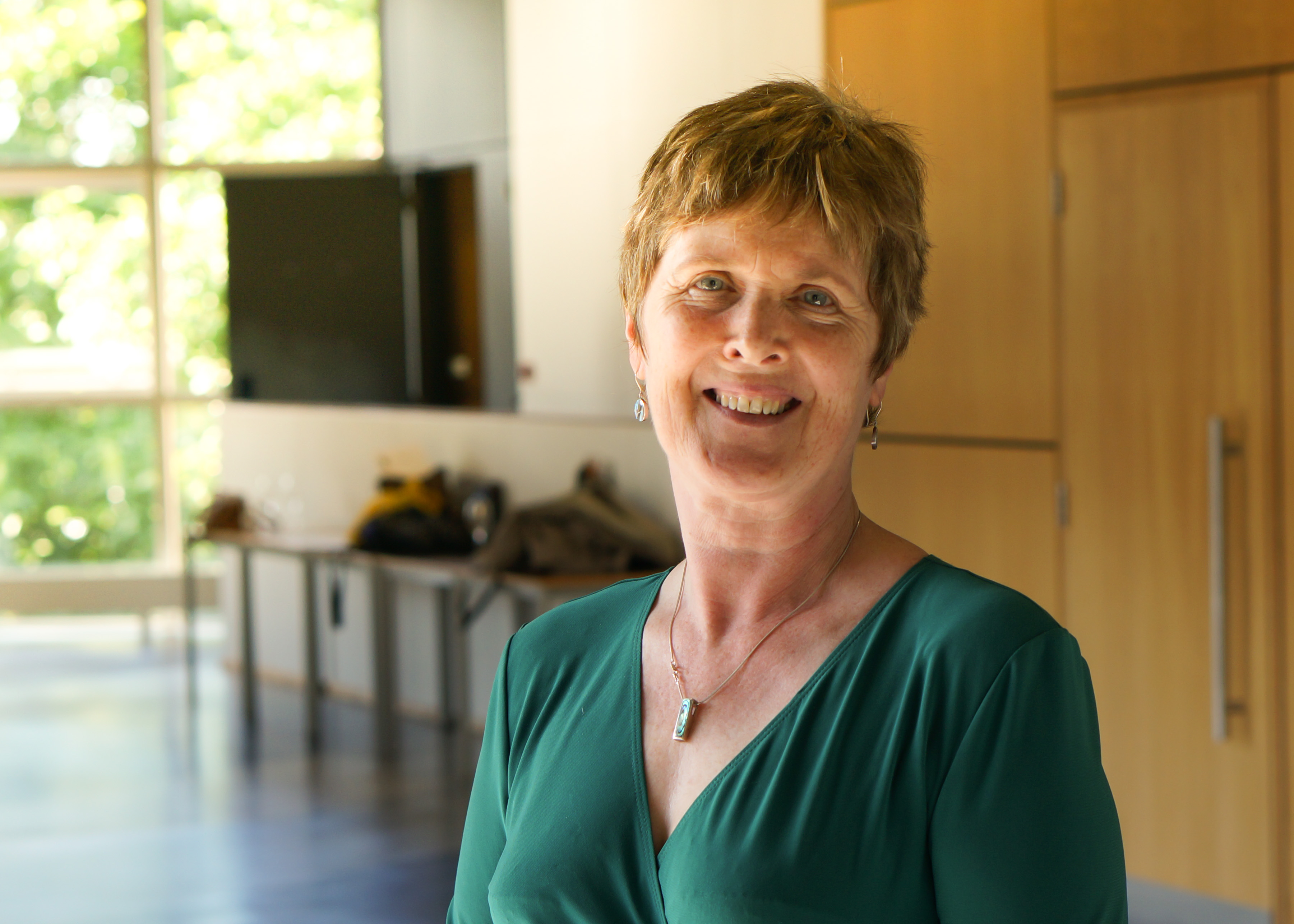 (Queens University Belfast